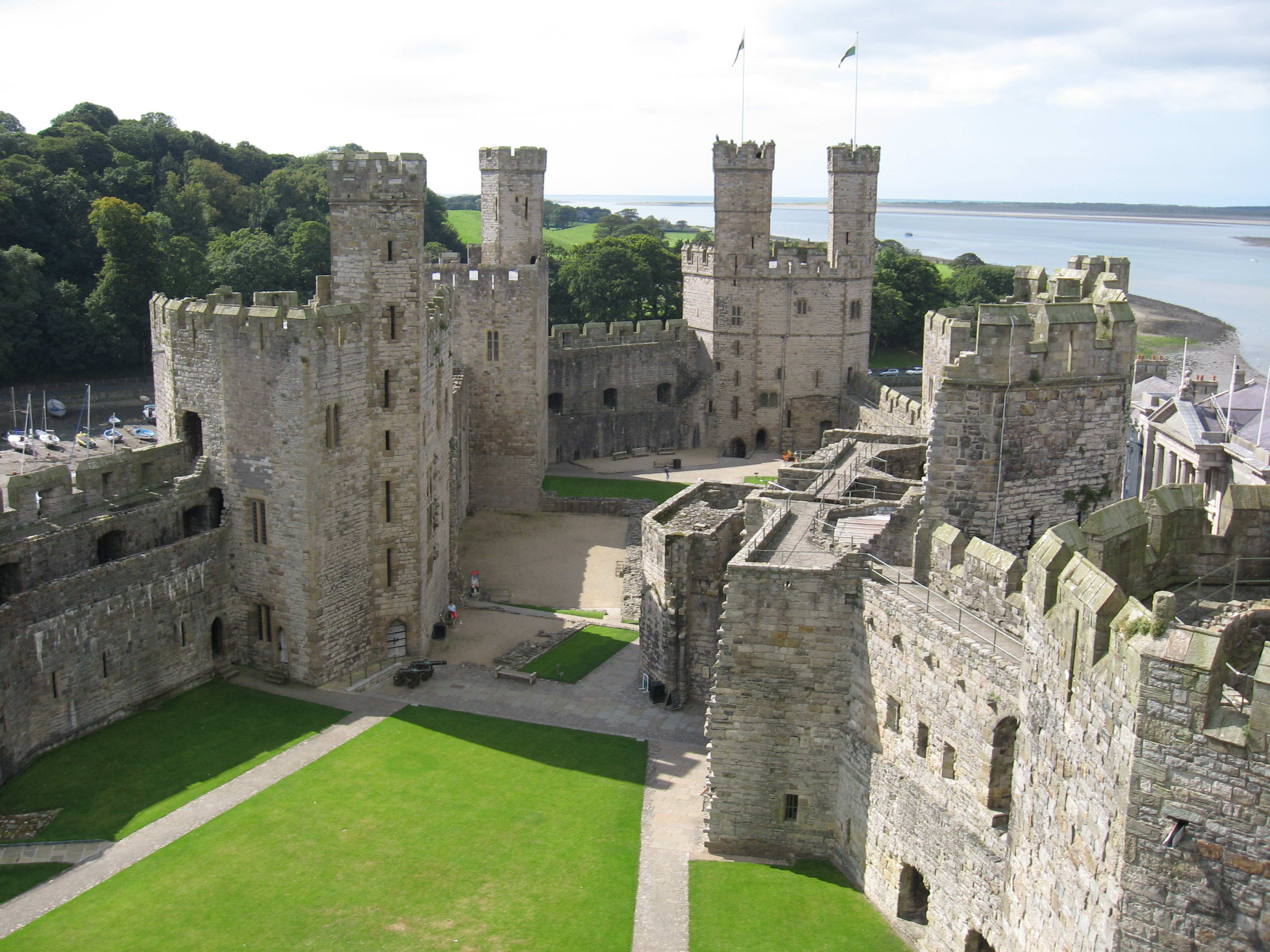 Caernarfon Castle: Wards